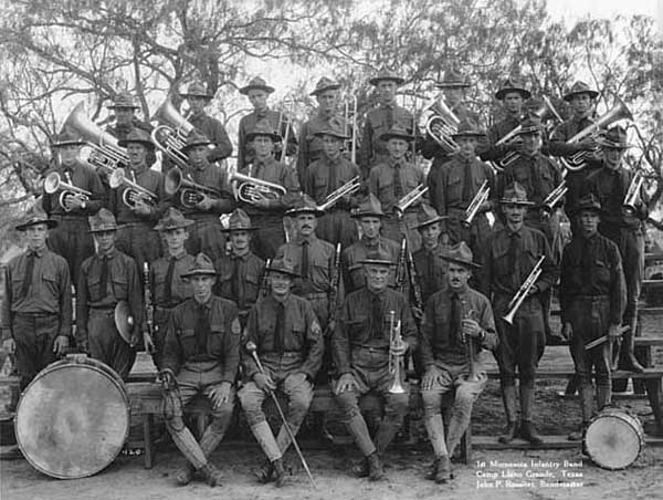 1st Inf Reg Band, MNARNG while mobilized in support of the Mexican Expedition at Camp Llano Grande, TX. c1916